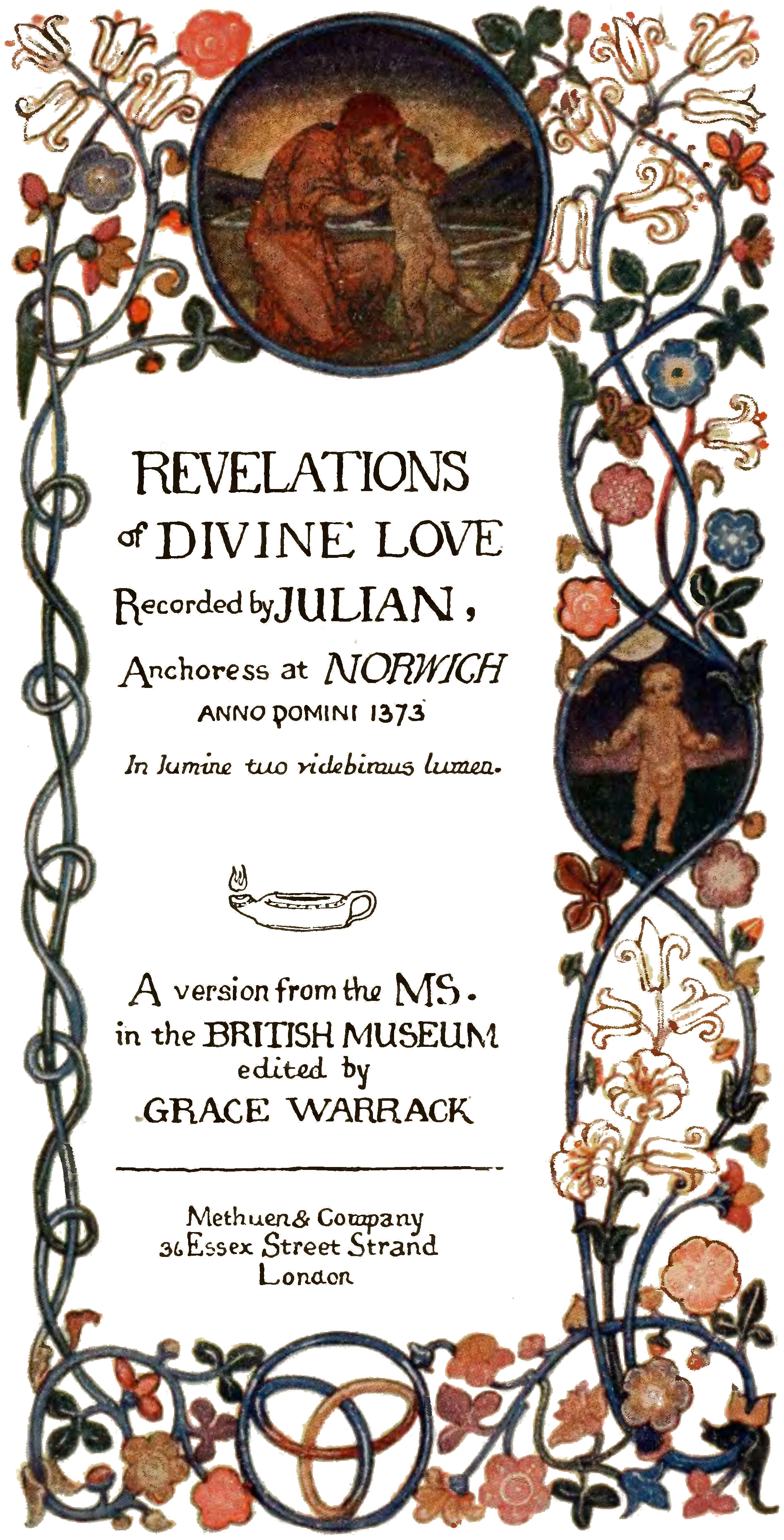 Image from Revelations of Divine Love (Warrack 1907)